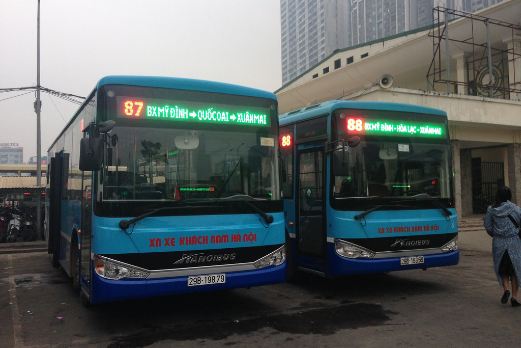 Two BC095 at Mỹ Đình Bus Station